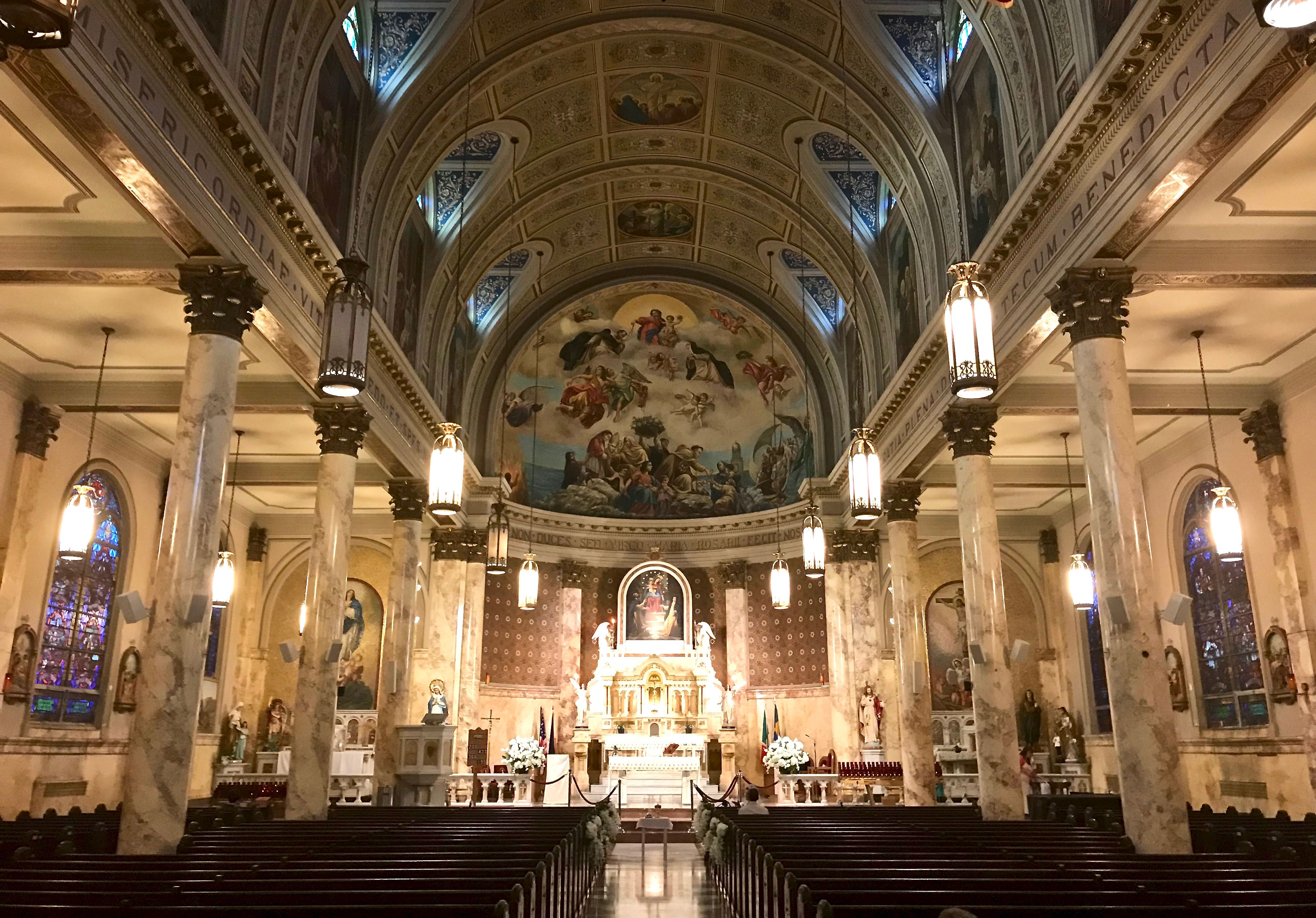 Interior of Our Lady of Pompeii Church in Greenwich Village, Manhattan, New York City.